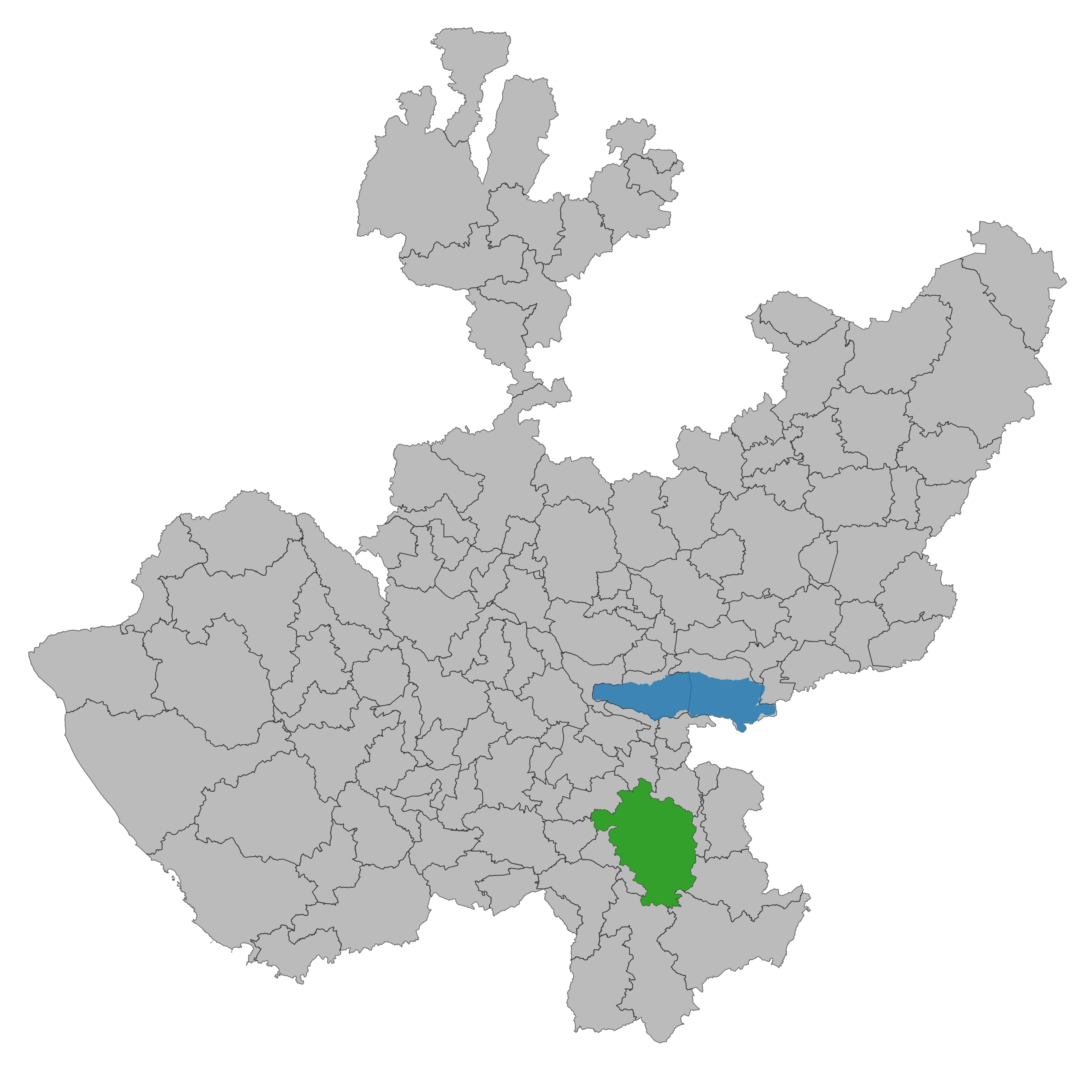 Municipality of Jalisco. Prepared with the software QGIS version 2.8.2 Wien & with information of SCINCE 2010 version 05/2013